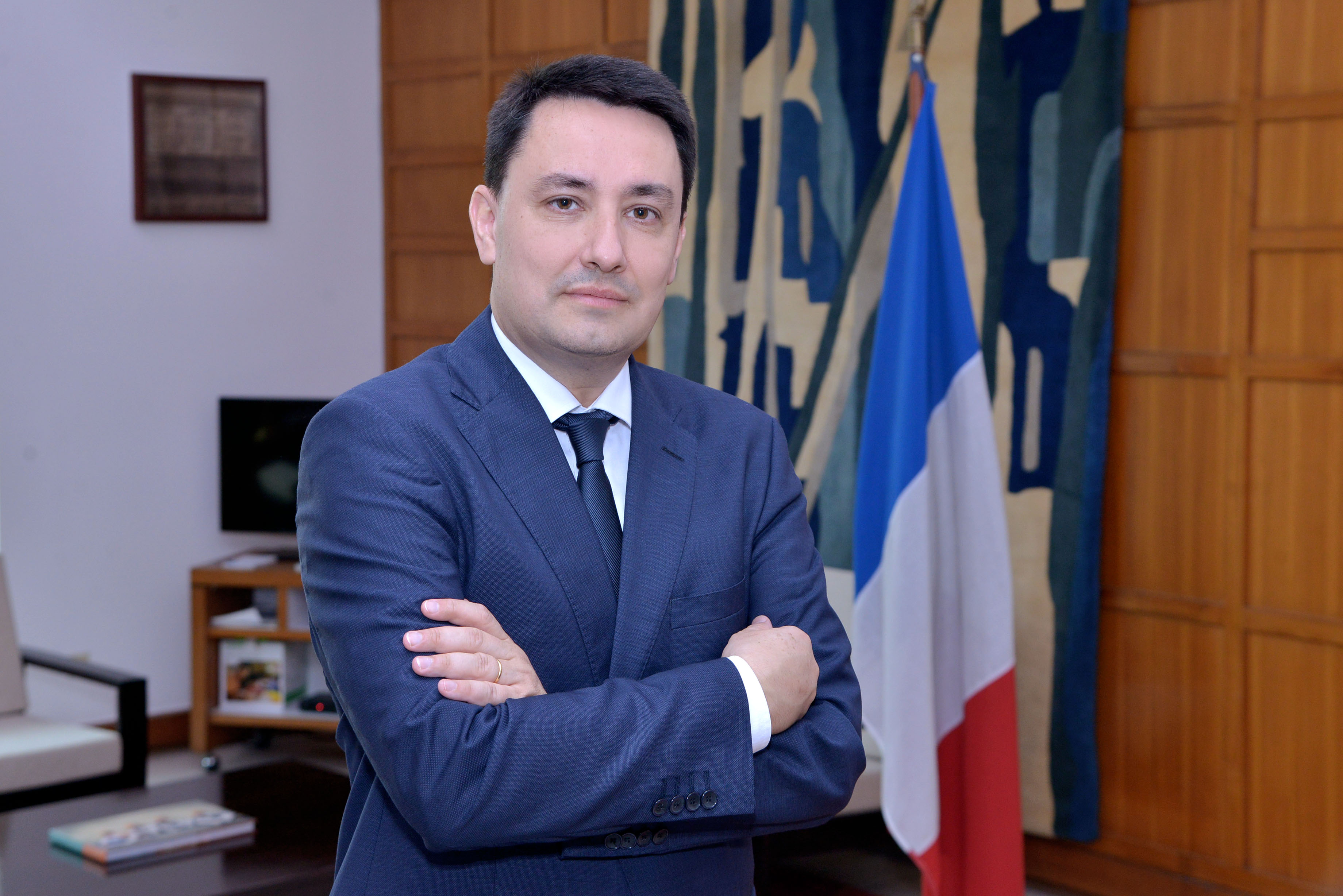 Former Ambassador of France to India